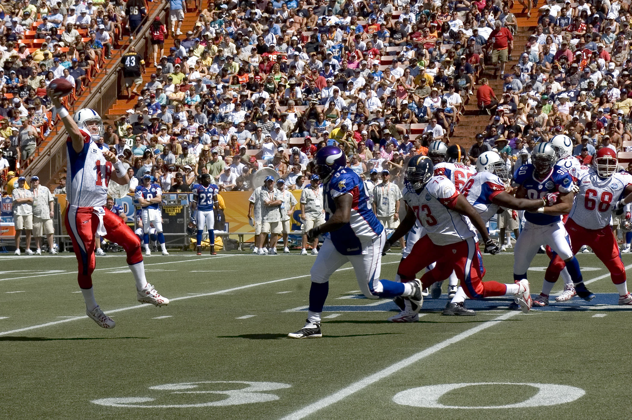 Peyton Manning, of the World Champion Indianapolis Colts, launches a pass during the Pro Bowl. The Pro Bowl, which features All-Star players from the National Football Conference (NFC) and the American Football Conference (AFC), is in its 28th consecutive year at Aloha Stadium in Honolulu, Hawaii.